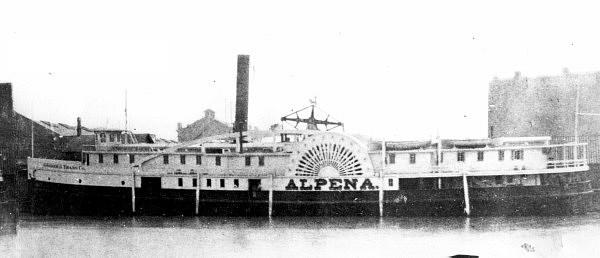 Photo of the SS Alpena pre-1880 (Note: Watermarking was removed from this version). Ship sank 1880